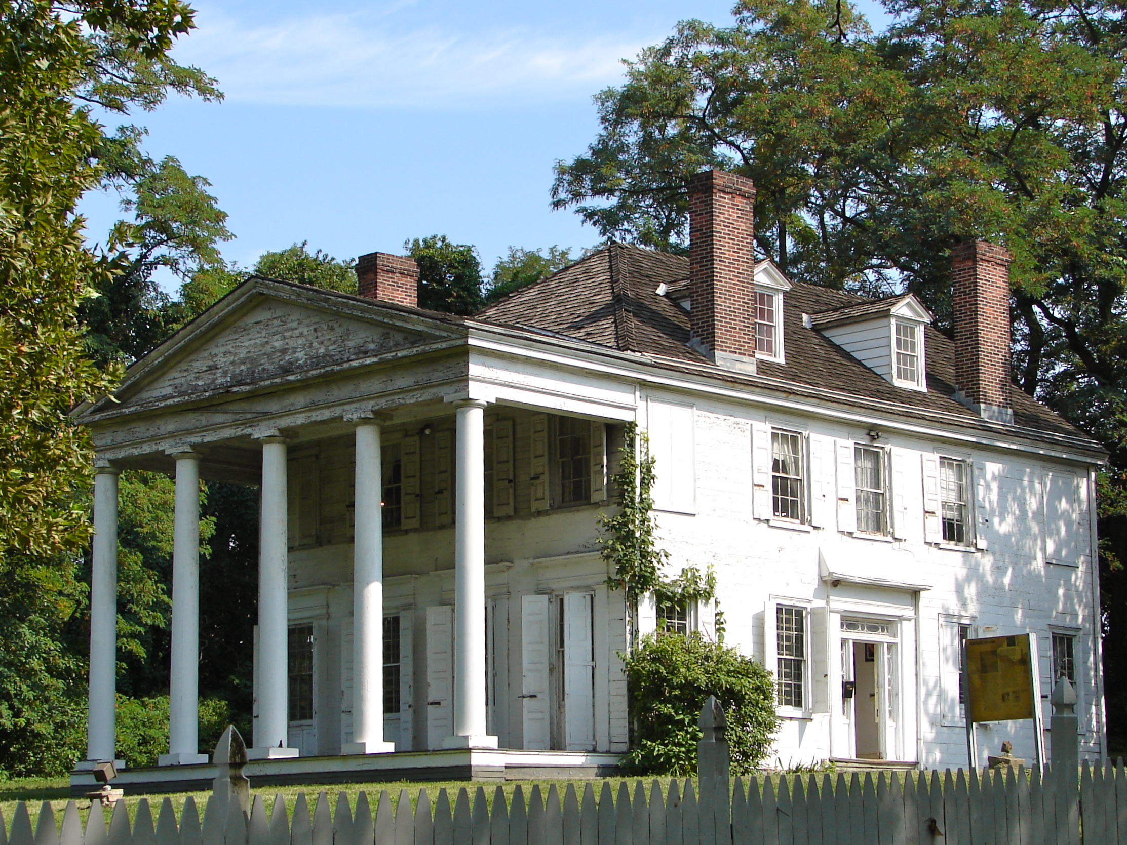 Hatfield House in Philadelphia on the NRHP since March 16, 1972. On 33rd St. near Girard Avenue in the Fairmount Park neighborhood of North Philly.